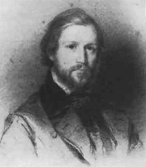 A picture of Charles-Valentin Alkan.